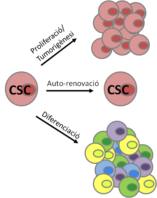 Distinctive Characteristic of Cancer Stem Cells